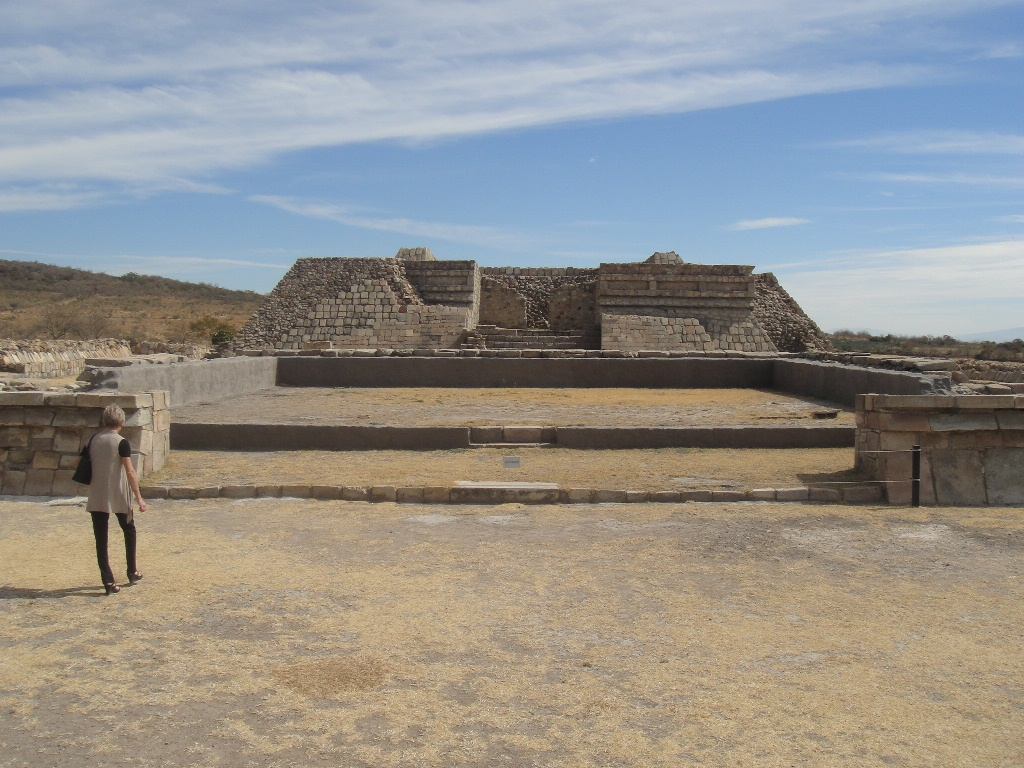 Template:Plazuelas view east of caracoles